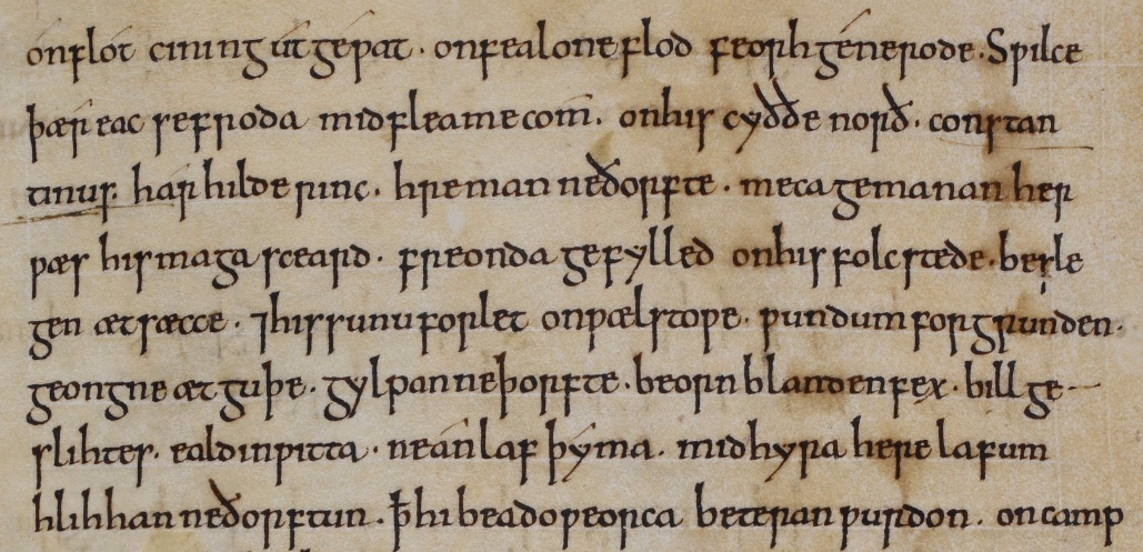 Cotton MS Tiberius B I, f141v: a fragment of the Battle of Brunanburh poem dealing with Constantine of Scotland.